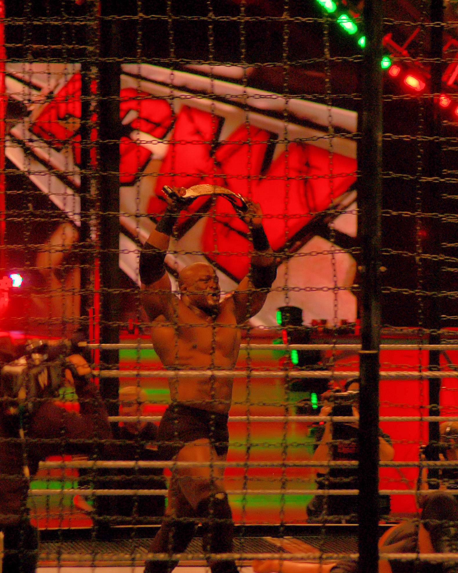 Wrestling in East Augusta, Augusta, Georgia, USA